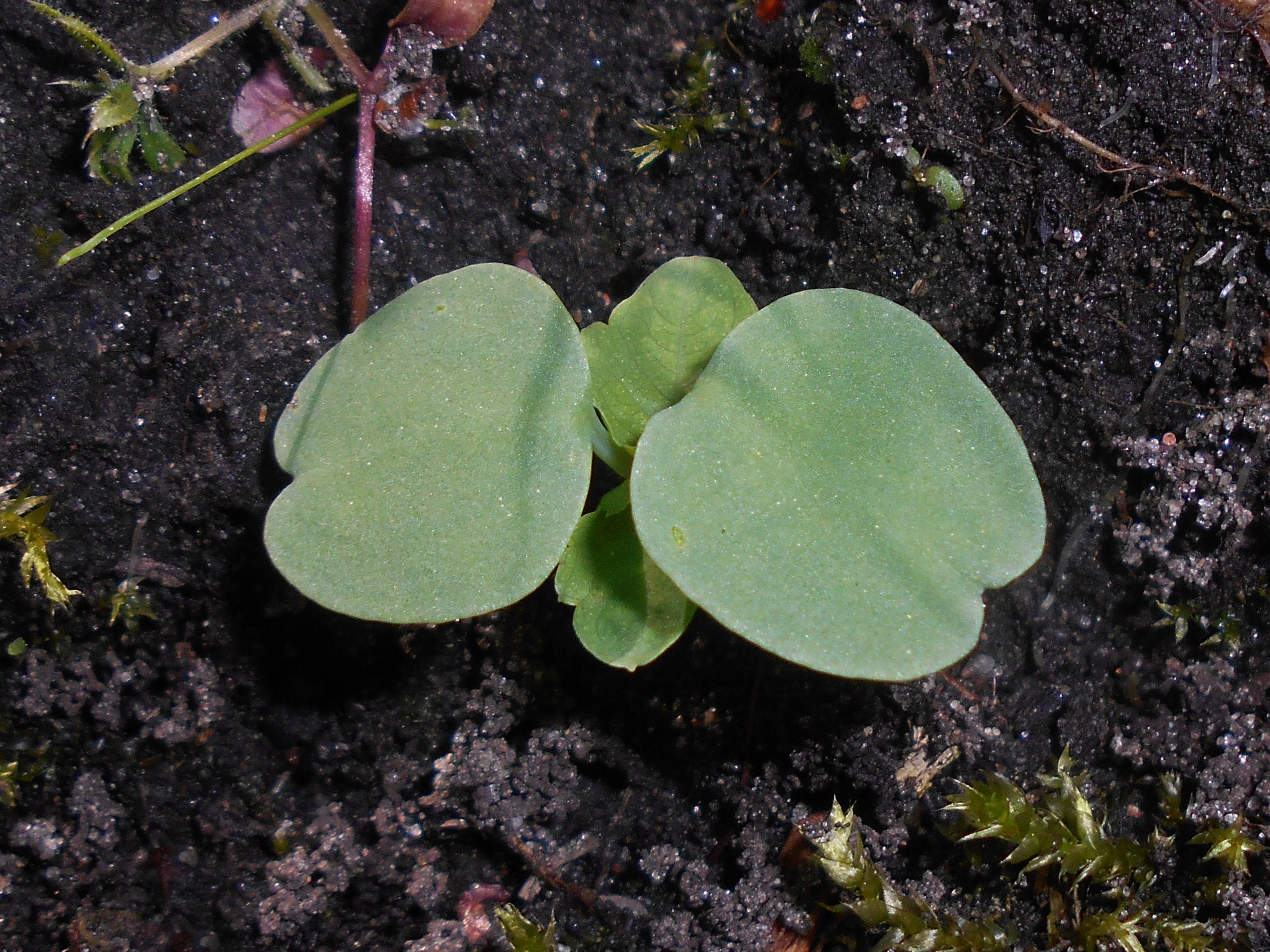 Impatiens noli-tangere seedling, near Płonia river, Szczecin, West Pomeranian Voivodeship, Poland.